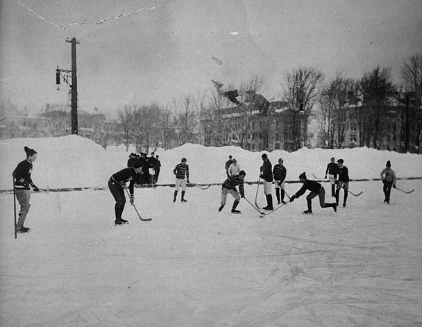 Hockey match at McGill University, Montreal, Canada.